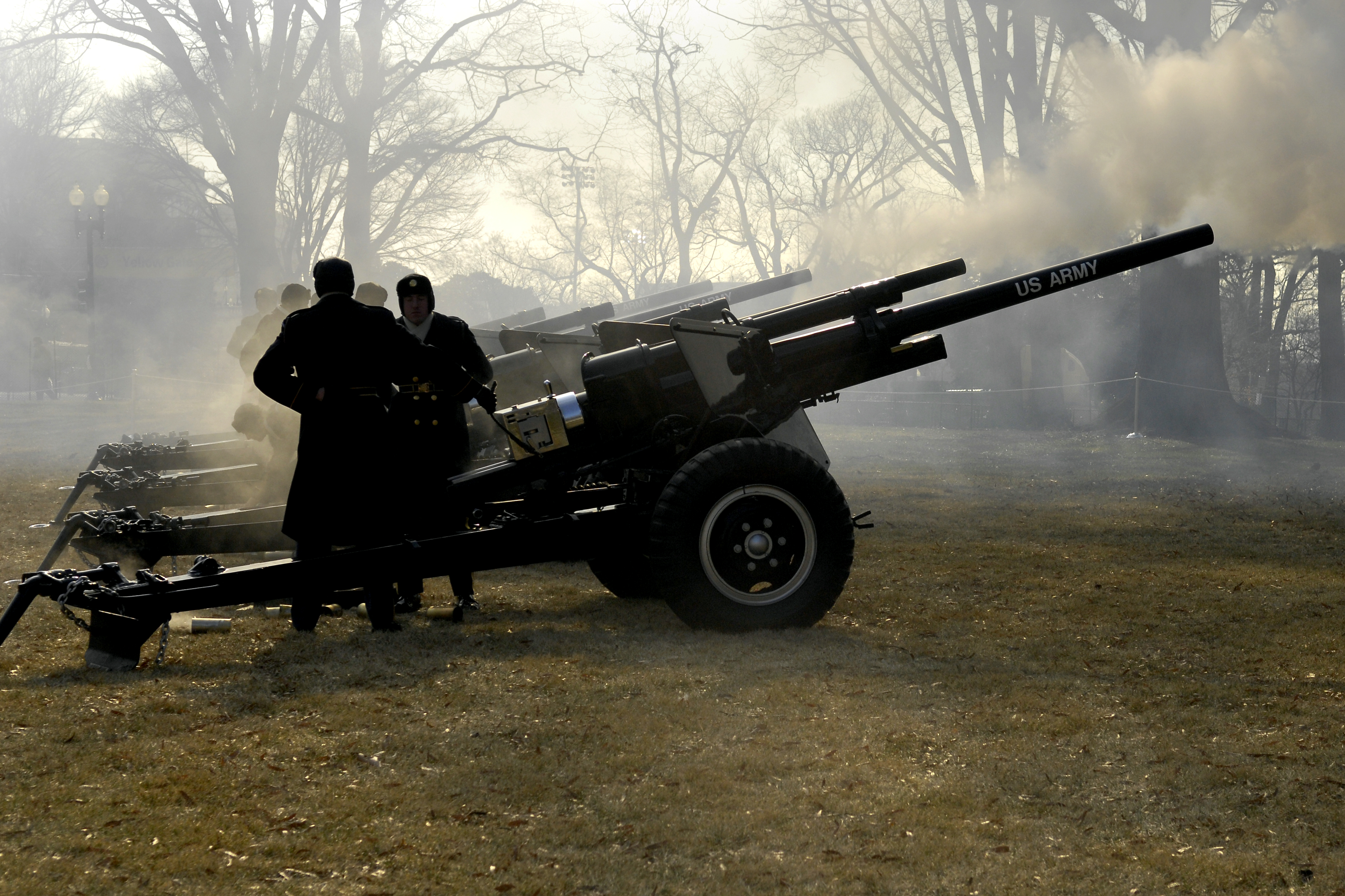 The cannon of the Presidential Salute Gun Platoon roar in succession, a rolling volley honoring a new president. The ceremonial unit is part of the U.S. Army's Headquarters and Headquarters Company, 1st Battalion, 3rd Infantry Regiment, "The Old Guard," based on Fort Myer, Va. More than 5,000 men and women in uniform are providing military ceremonial support to the presidential inauguration, a tradition dating back to George Washington's 1789 inauguration.